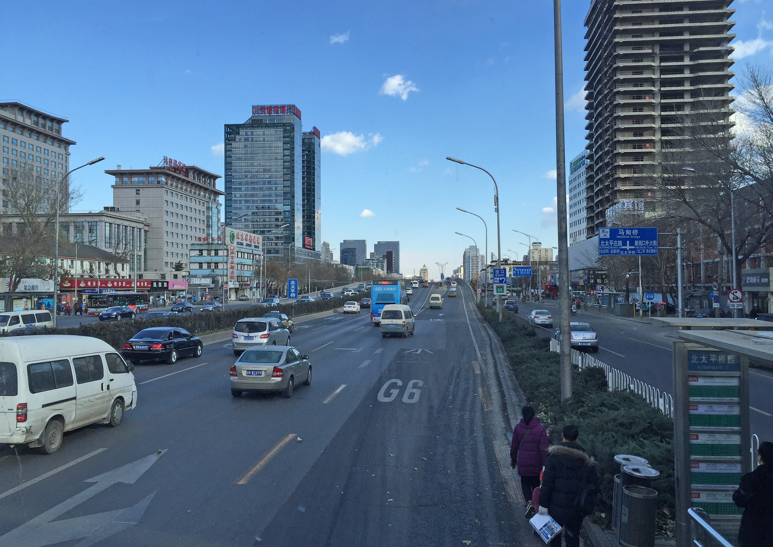 Taken from the upper deck of T8.